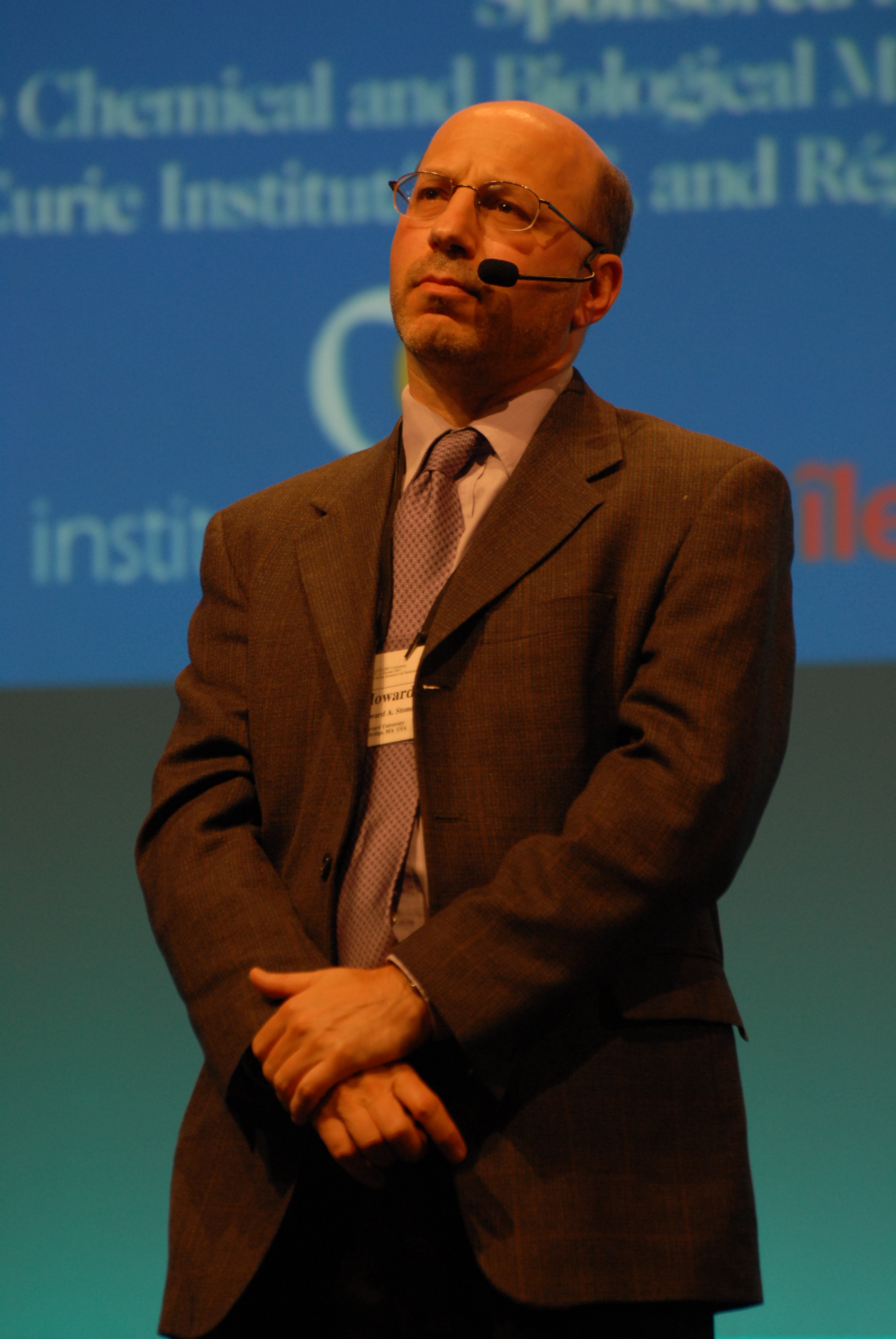 Howard A. Stone at the 11th International Conference on Miniaturized Systems for Chemistry and Life Sciences (µTAS 2007 Conference).